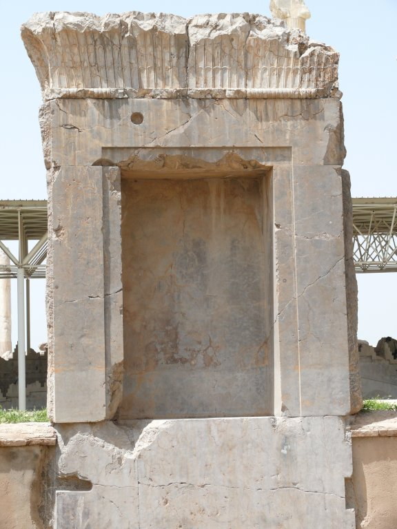 Aegyptian style carving upper the remaining cells of the 100 columns palace, Persepolis, Iran